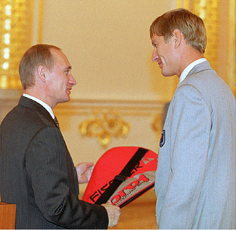 THE KREMLIN, MOSCOW. Meeting with members of the Russian team at the Sydney Olympics. Olympic tennis champion Yevgeny Kafelnikov presented Vladimir Putin with a tennis racket as a souvenir.